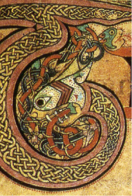 Detail from Folio 124 recto of the Book of Kells